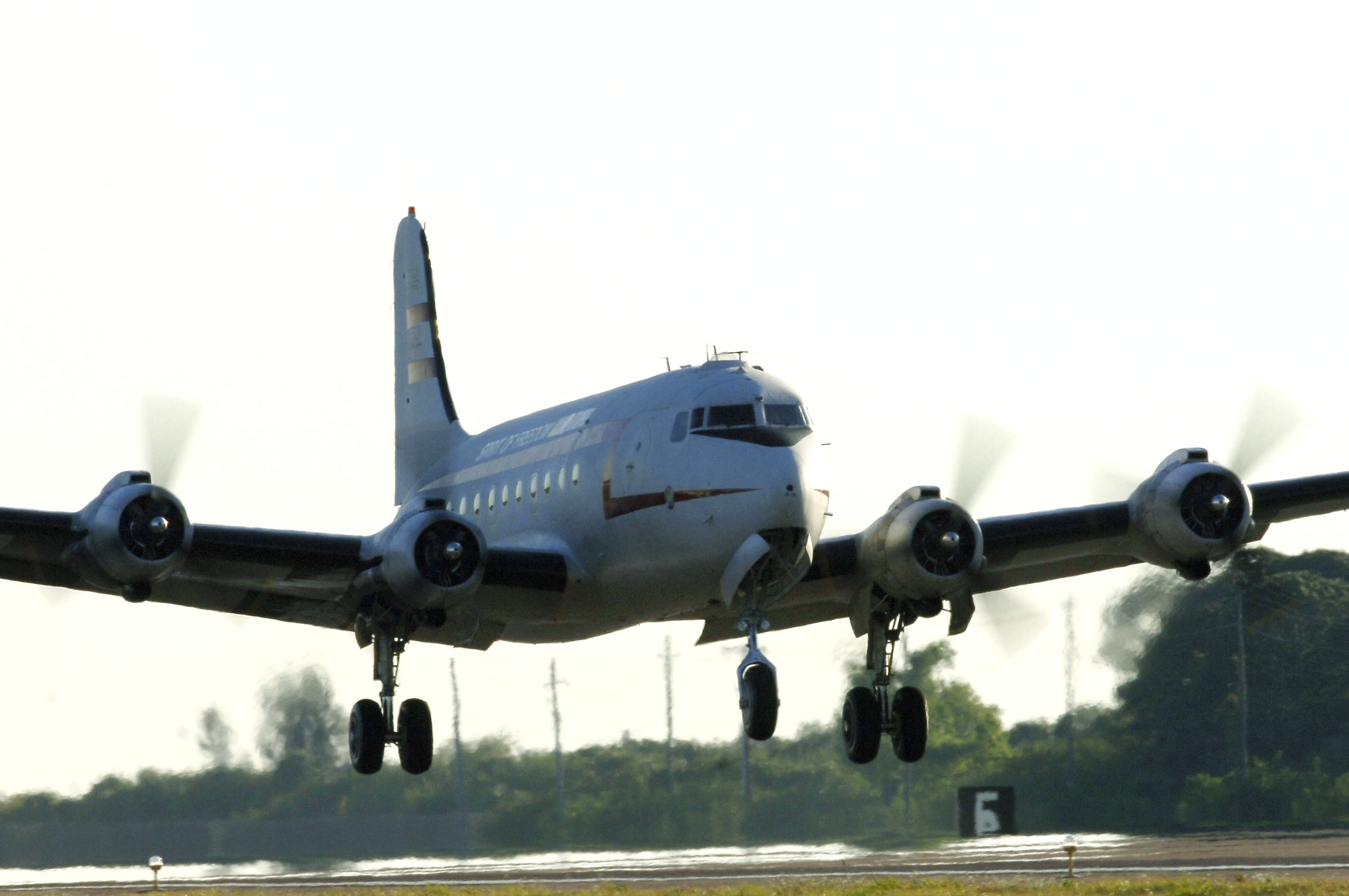 Phoenix Rally celebrates 60th Anniversary of Berlin Airlift Retired Col. Gail Halvorsen and the crew of C-54 Skymaster "Spirit of Freedom" take off March 24 at MacDill Air Force Base, Fla. The Spirit of Freedom flew over Steinbrenner Field for a New York Yankees spring training game.